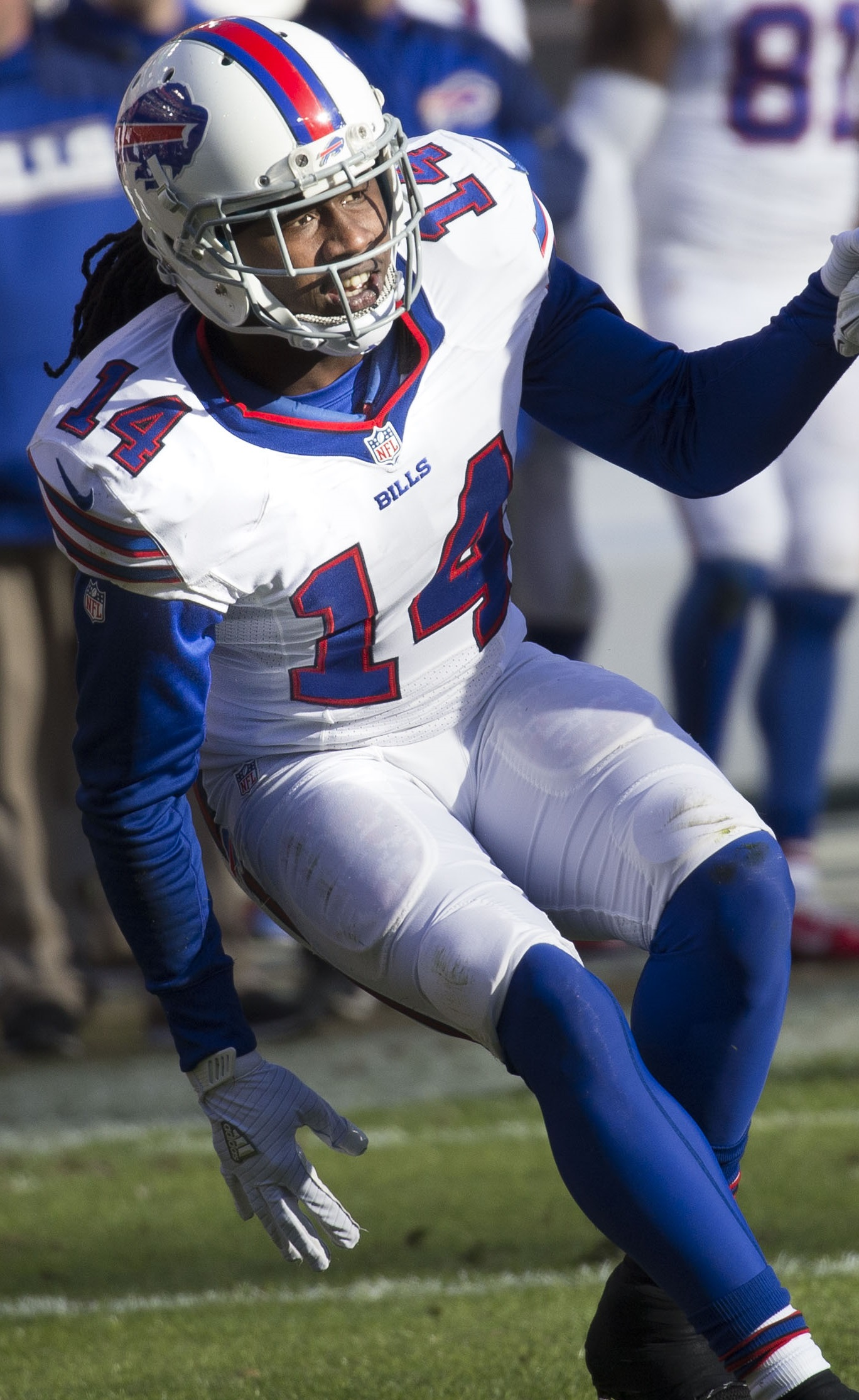 Bills at Redskins 12/20/15